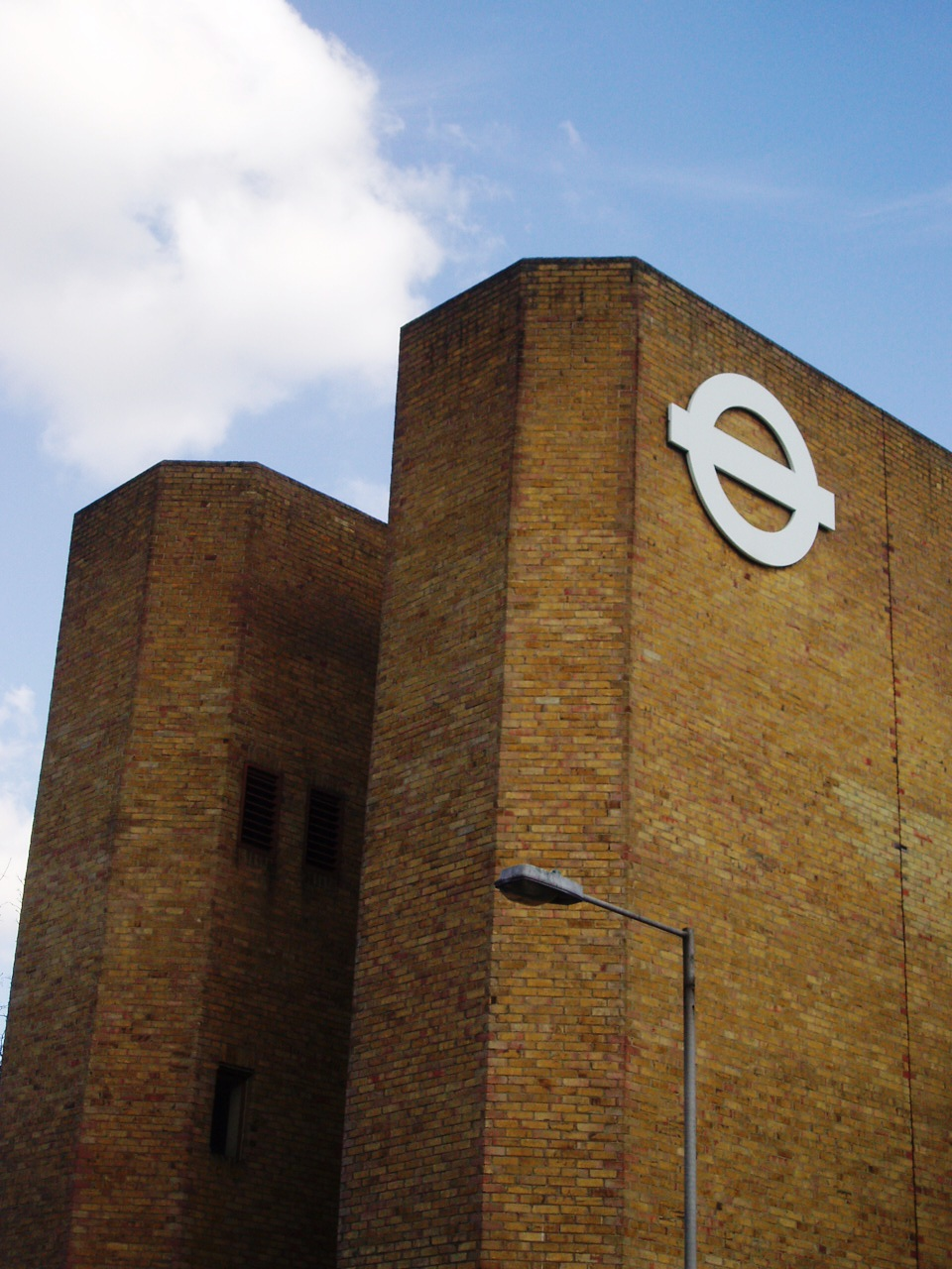 London Transport roundel against the sky on Sheep Lane E8. A big bus depot.